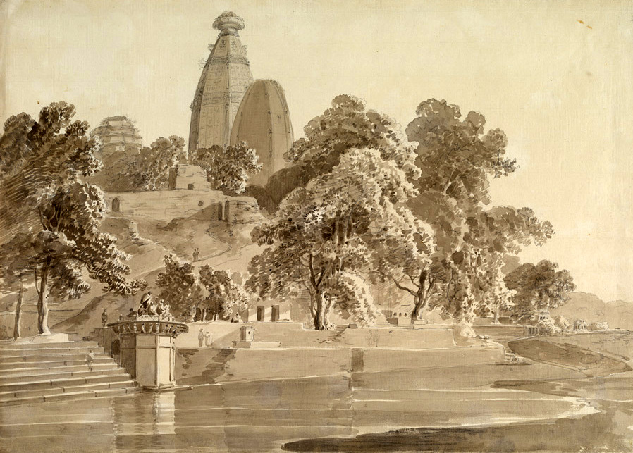 Madan Mohan temple, on the Yamuna, Vrindavan, 1789. Pencil and wash drawing.